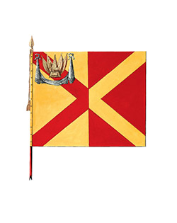 Standard of the Tobolsk 38th Infantry Regiment